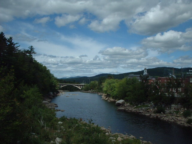 View of the Androscoggin River in Rumford, Maine.